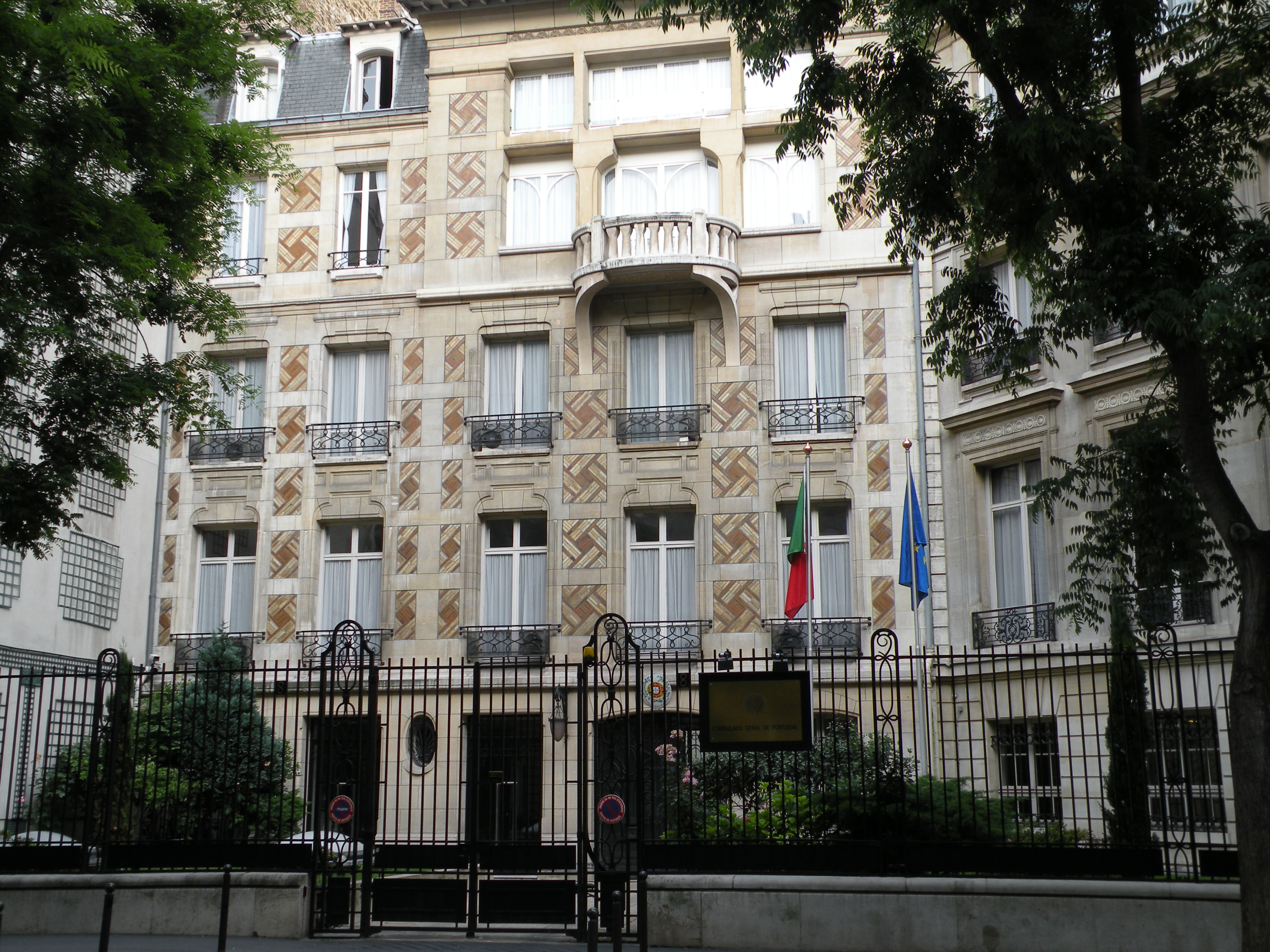 Portuguese consulate general in Paris